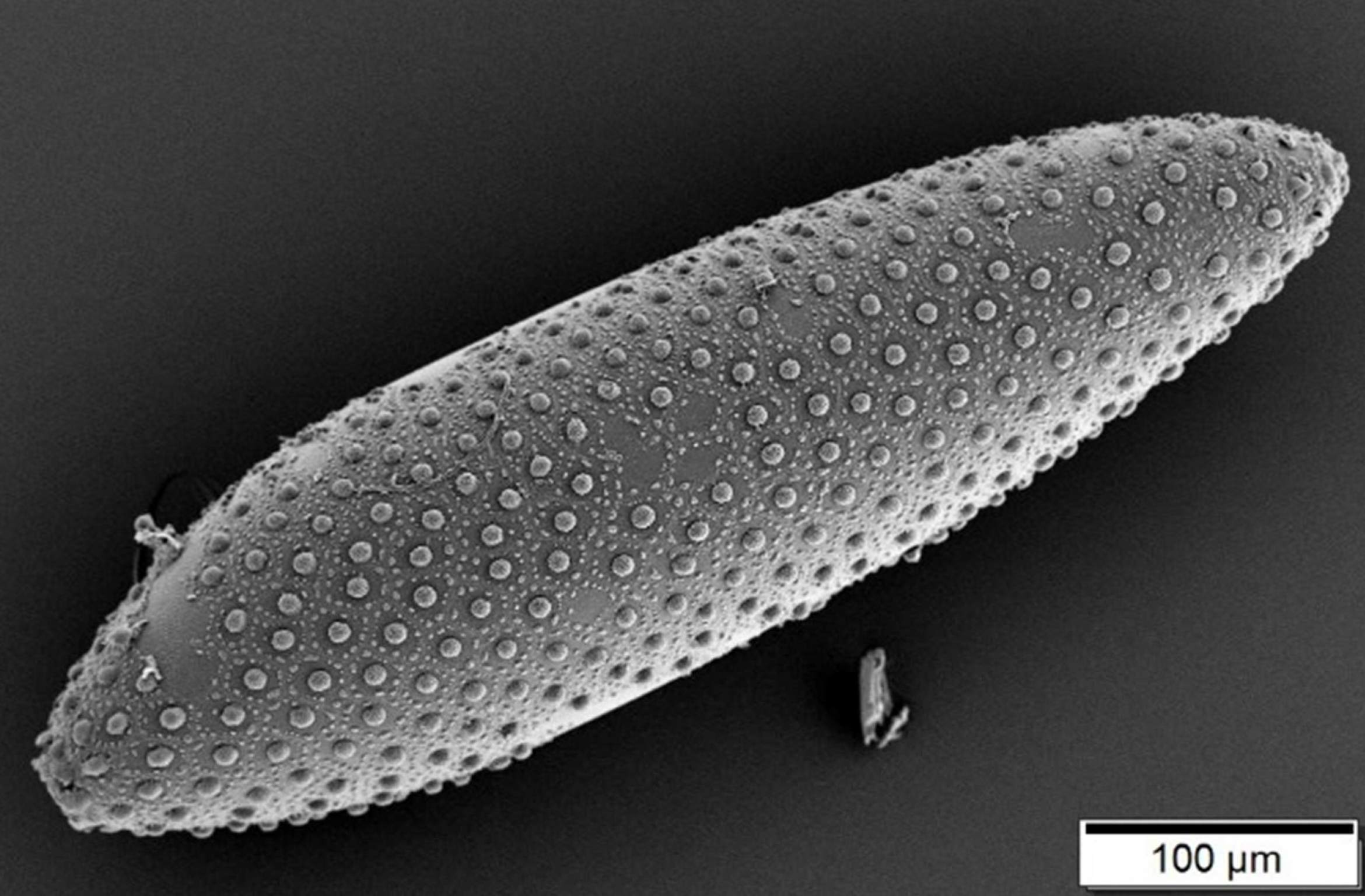 Mosquito egg prepared using the air drying method with HMDS, SEM image.